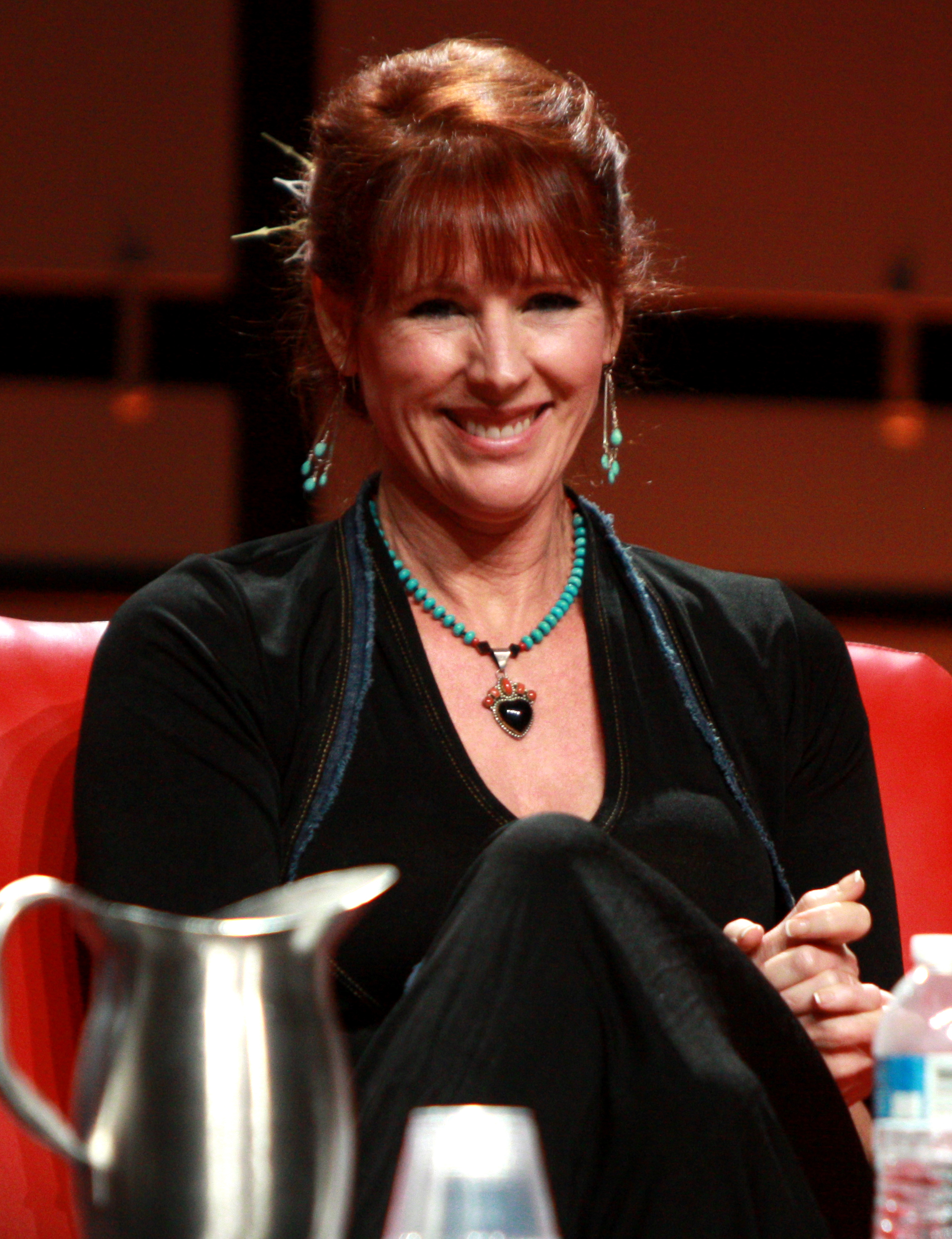 Pat Tallman at the 2013 Phoenix Comicon in Phoenix, Arizona.